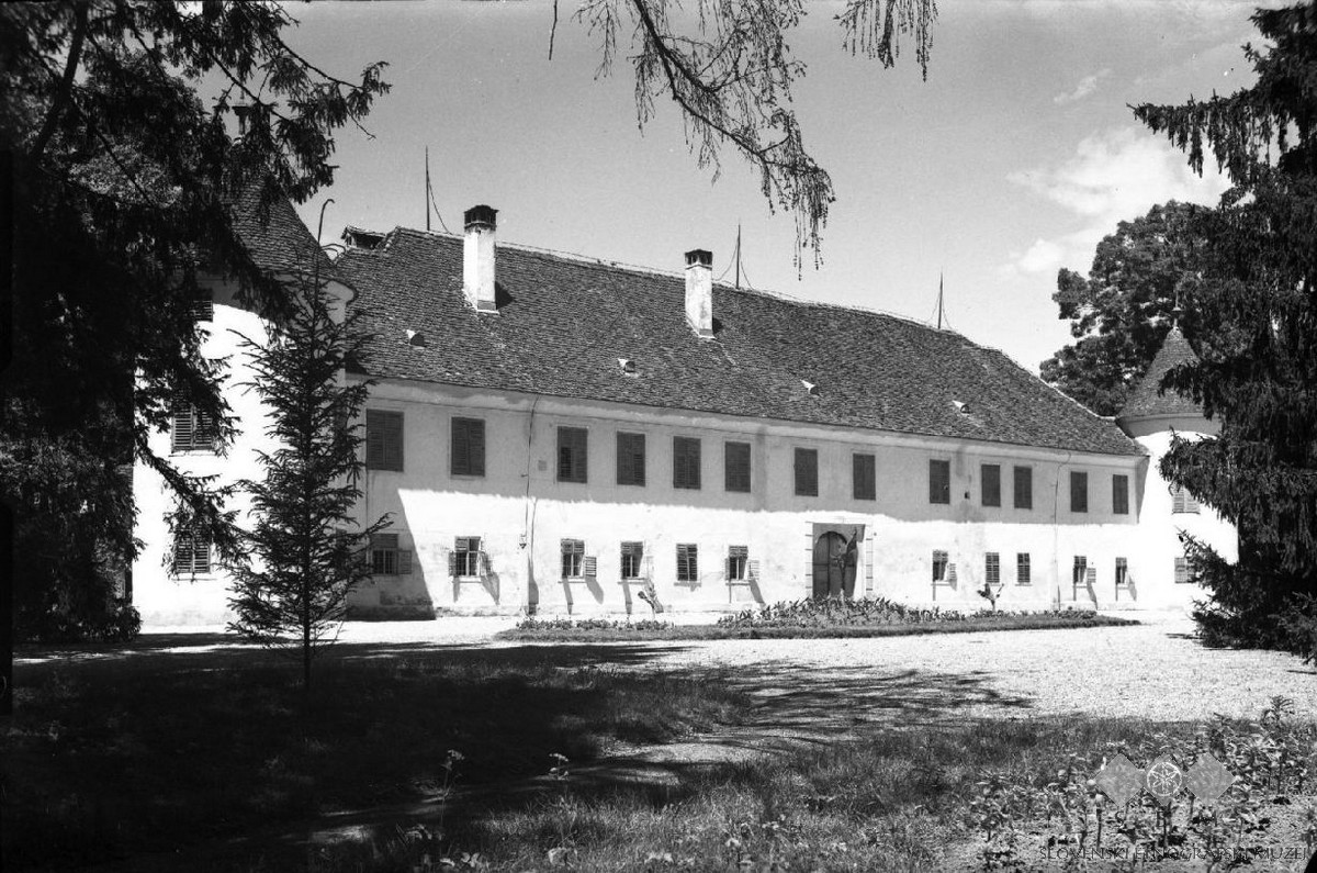 Postcard of Beltinci